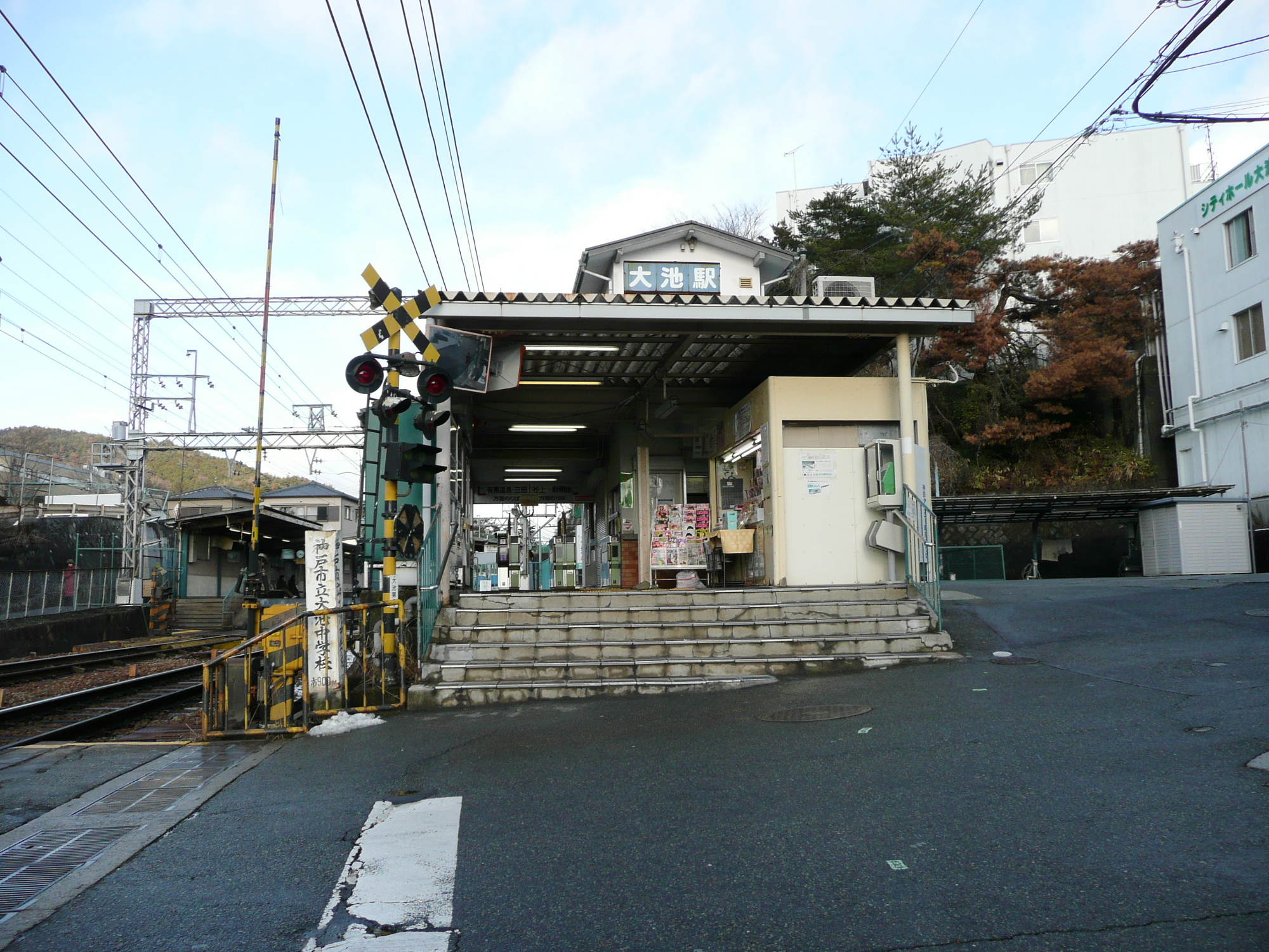 Kobe Electric Railway Oike Station